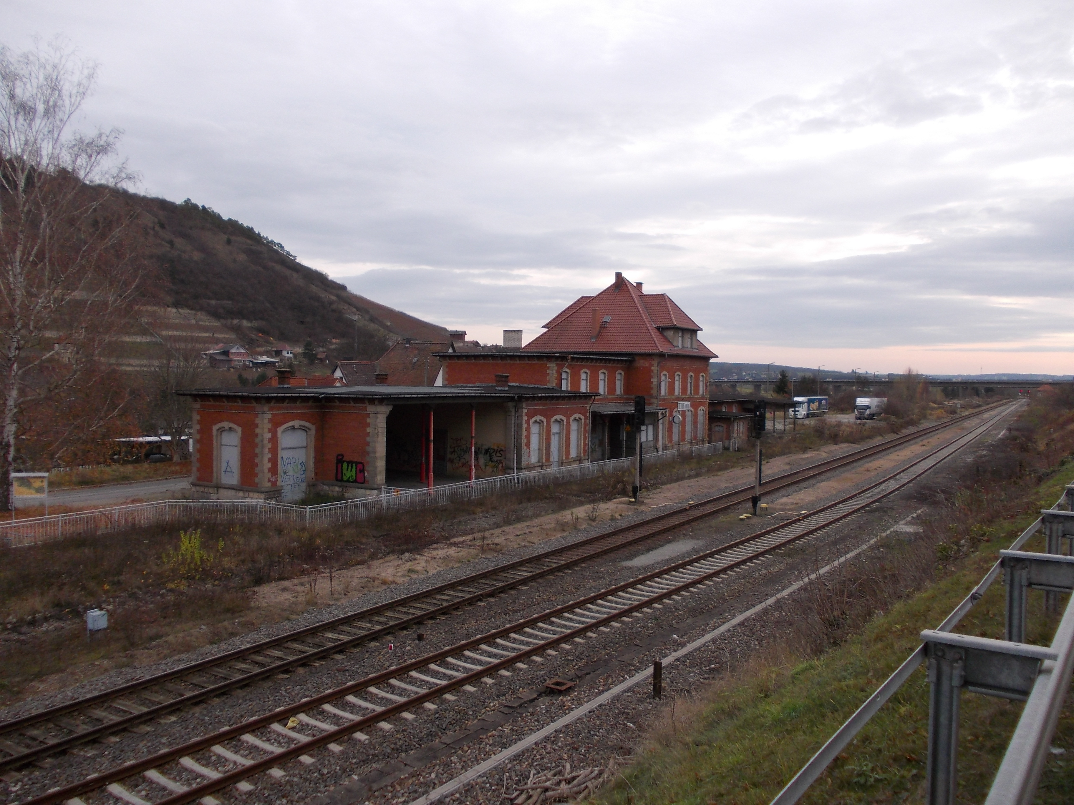 Old train station in Freyburg/Unstrut (district of Burgenlandkreis, Saxony-Anhalt)